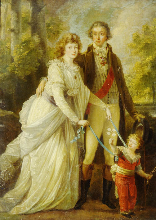 Family portrait Anna Ivanovna Tolstoy